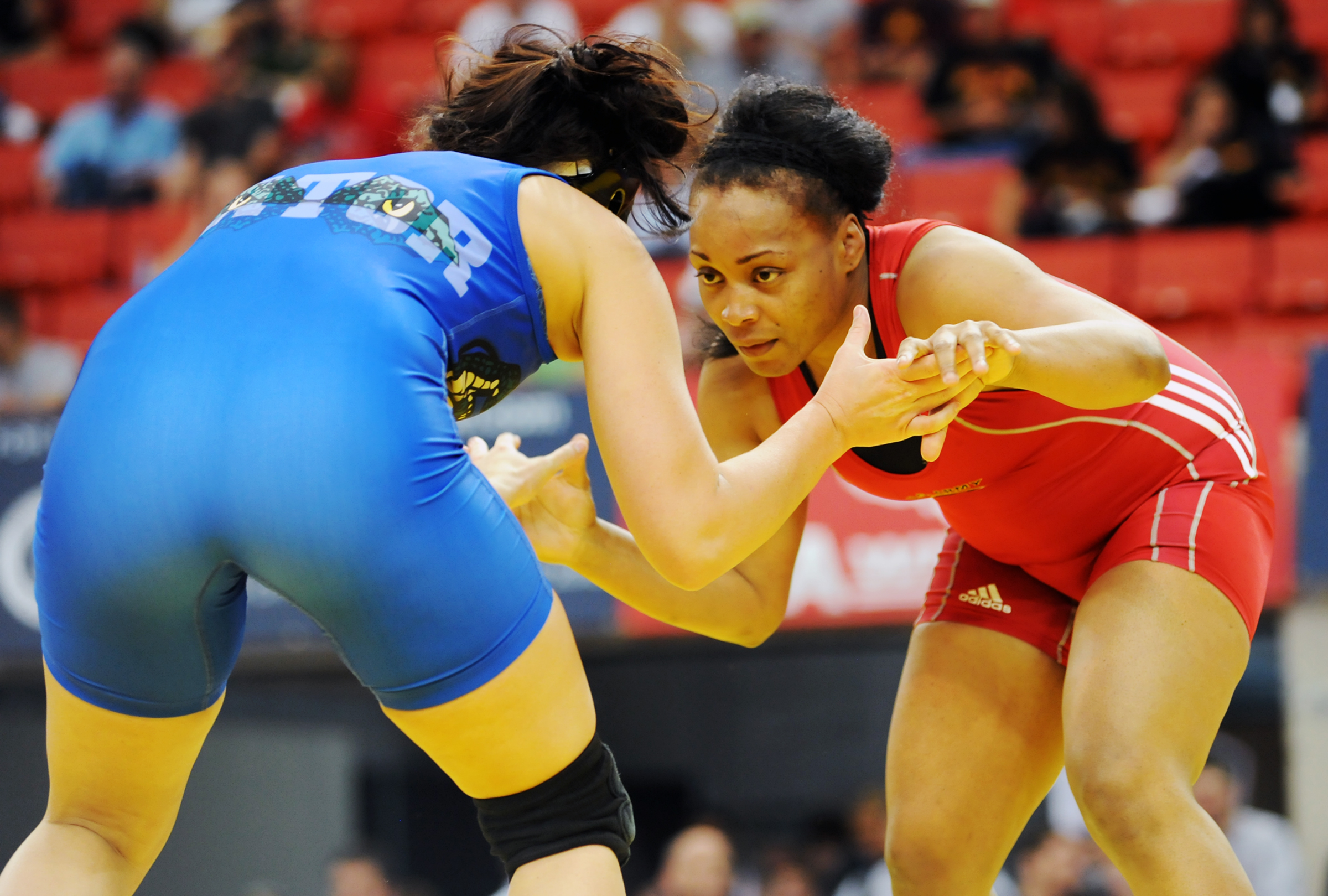 U.S. Army World Class Athlete Program wrestler Sgt. Iris Smith (right) defeats Melissa Simmons of Gator Wrestling Club in the women's 72-kilogram challenge tournament finale to earn a berth in the finals of the 2011 U.S. World Team Trials on Friday at Cox Convention Center in Oklahoma City. U.S. Army photo by Tim Hipps, IMCOM Public Affairs